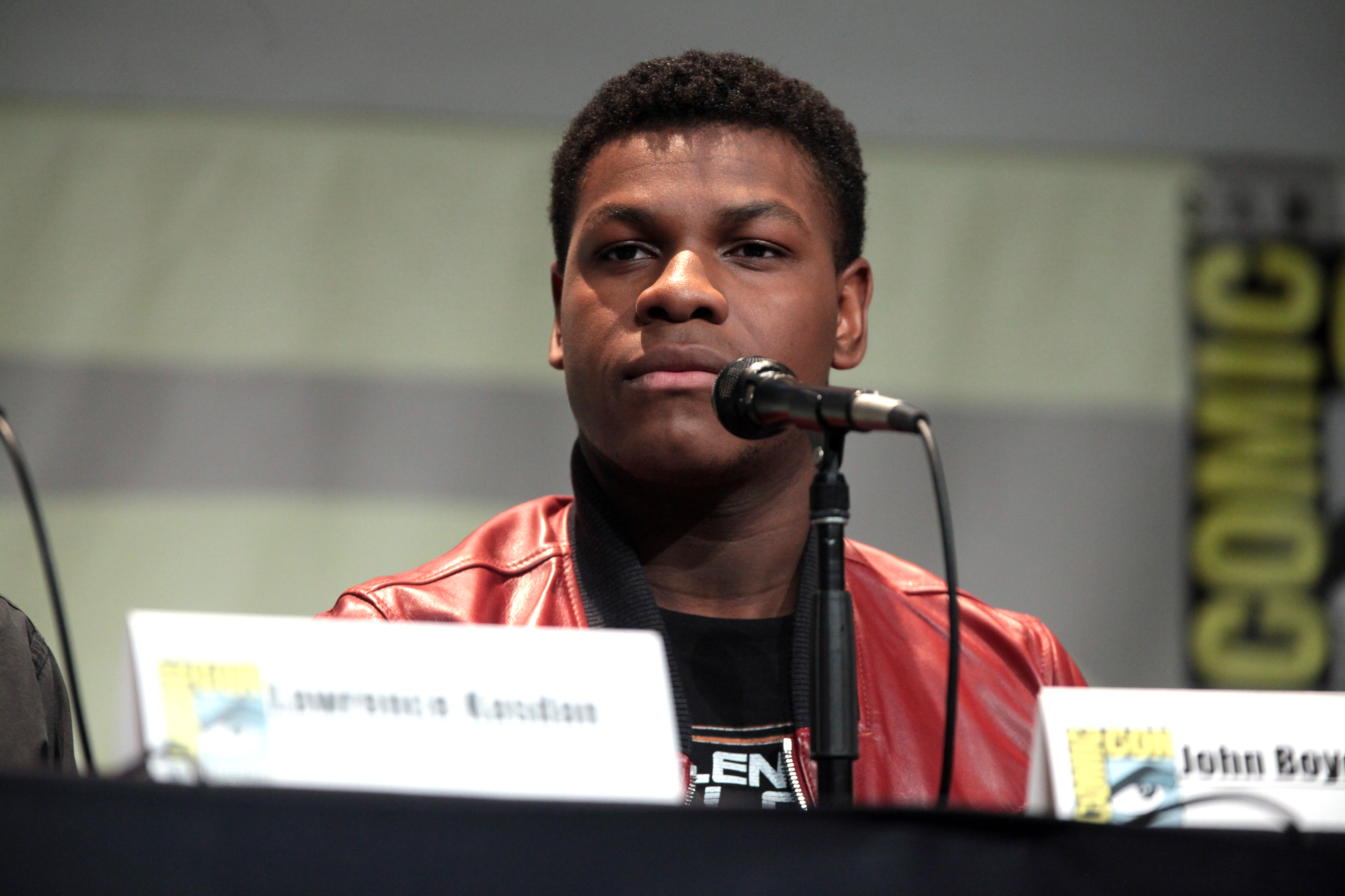 John Boyega speaking at the 2015 San Diego Comic Con International, for "Star Wars: The Force Awakens", at the San Diego Convention Center in San Diego, California.